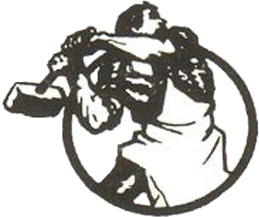 Worker